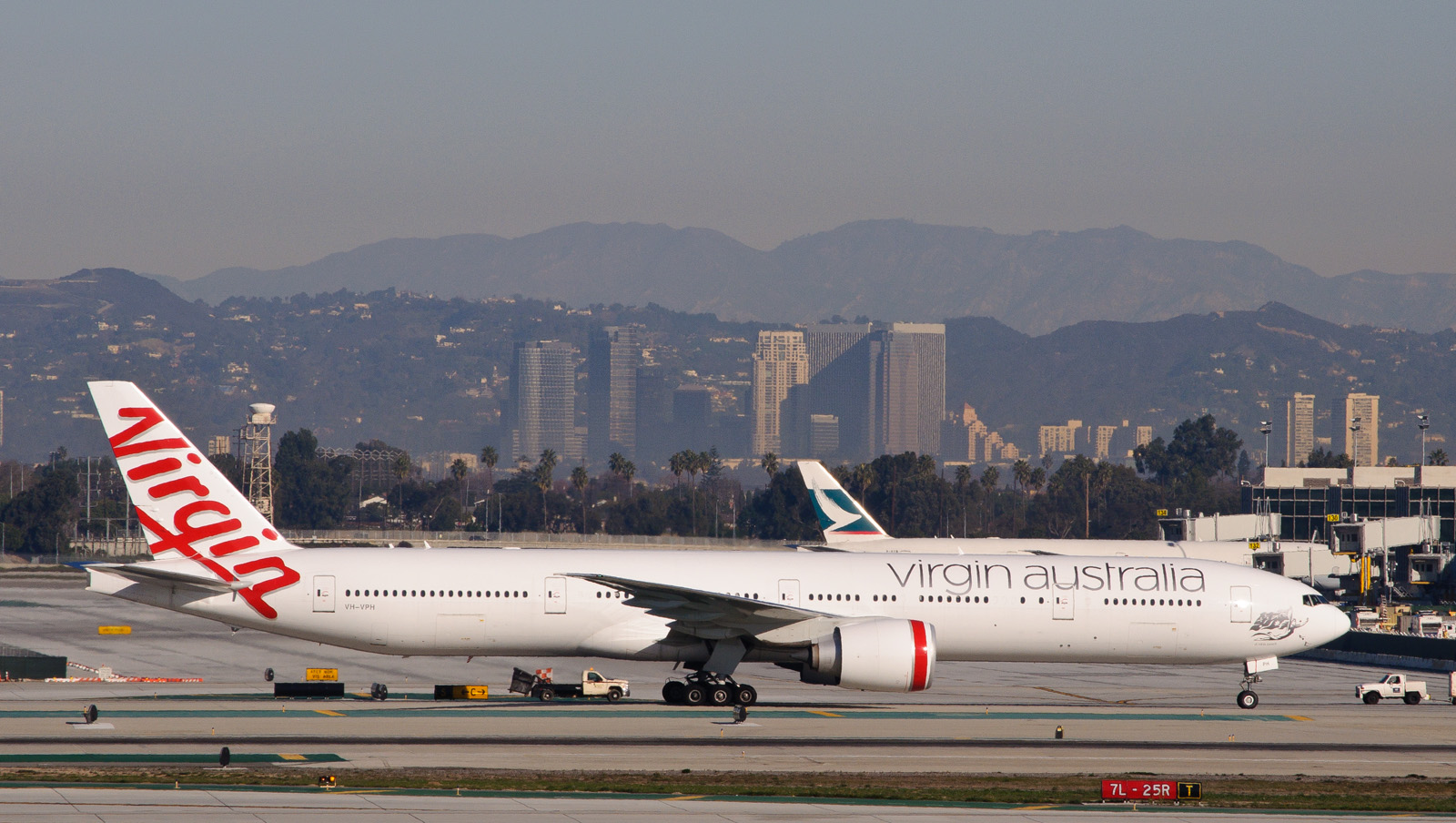 Some planespotting for the very first weekend of 2013 - in anticipation of seeing the new United 787 services to/from Tokyo. (And I was far from alone - plenty of hardcore planespotters, all of male middle-aged persuasion except for yours truly.) "Velocity 1" arrives from Sydney. This is my first time spotting the new Virgin Australia livery. VH-VPH, Boeing 777-300ER